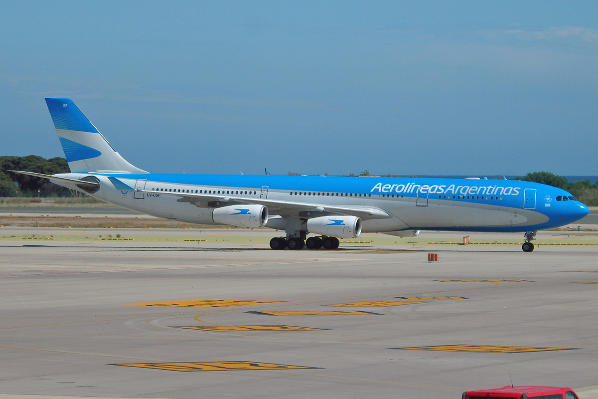 Aerolineas Argentinas, LV-CSF, Airbus A340-313